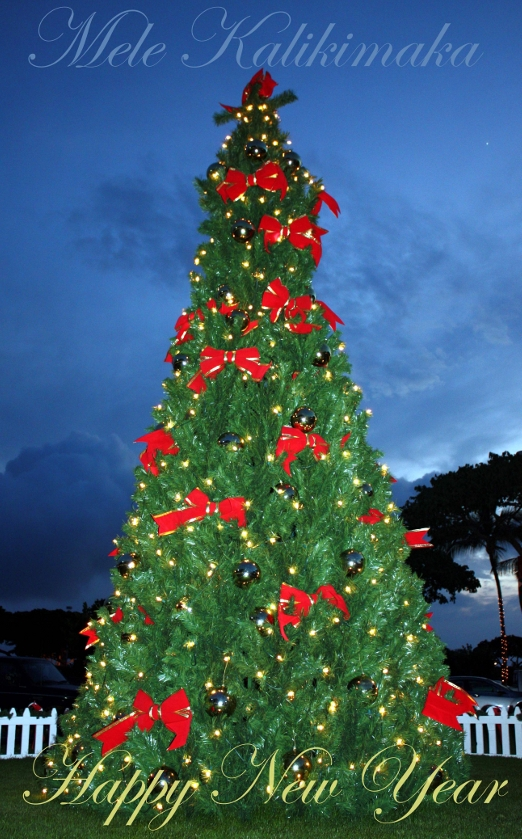 Lahaina Cannery Mall Christmas tree display, Maui, Hawaii.